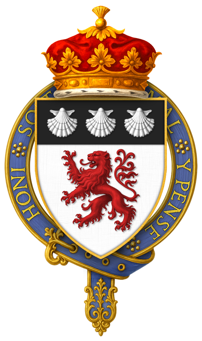 Garter encircled shield of arms of Herbrand Russell, 11th Duke of Bedford, KG, as displayed on his Order of the Garter stall plate in St. George's Chapel.